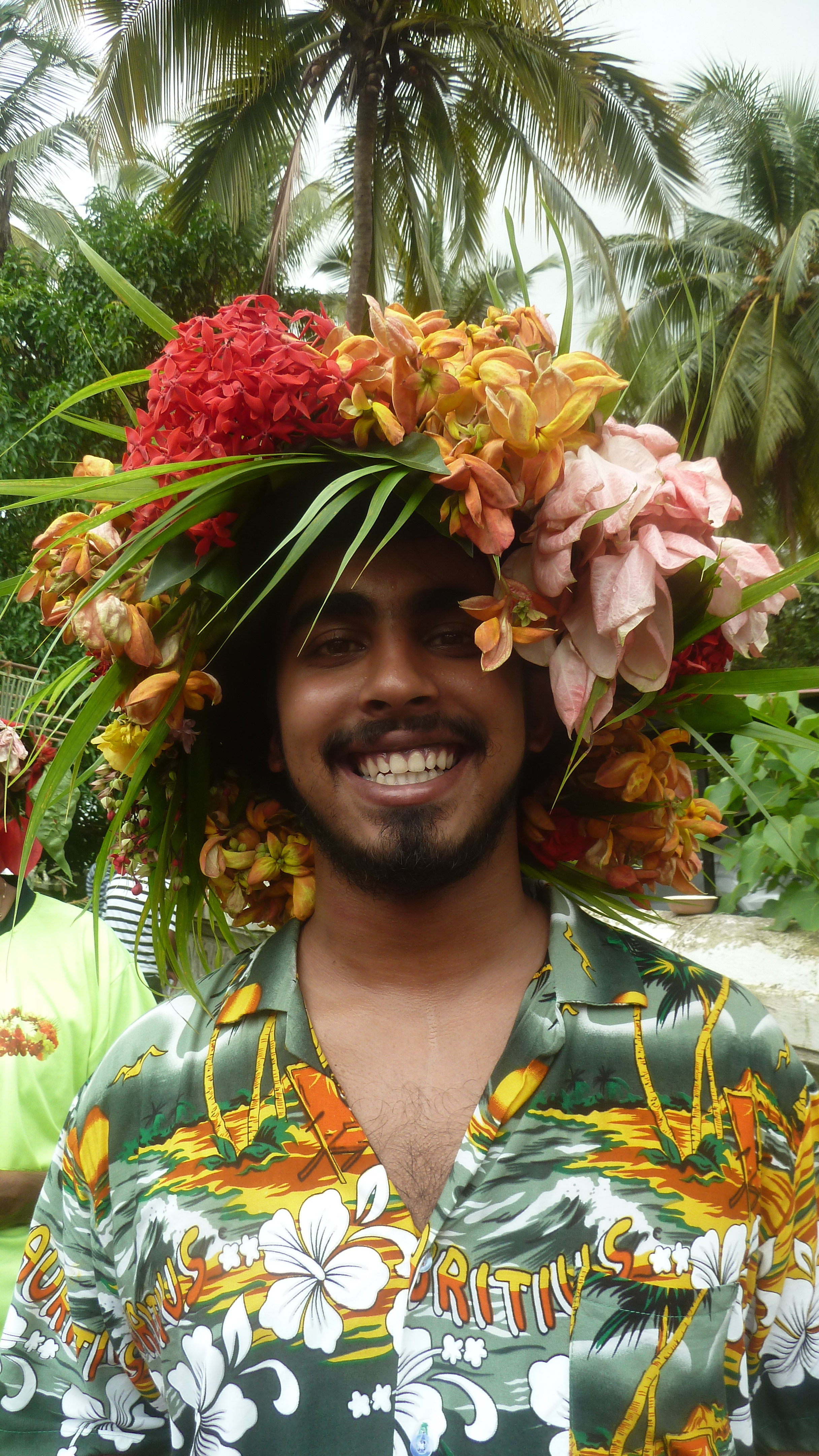 Kopels, the decorative crowns made for the Sao Joao festival in Goa.